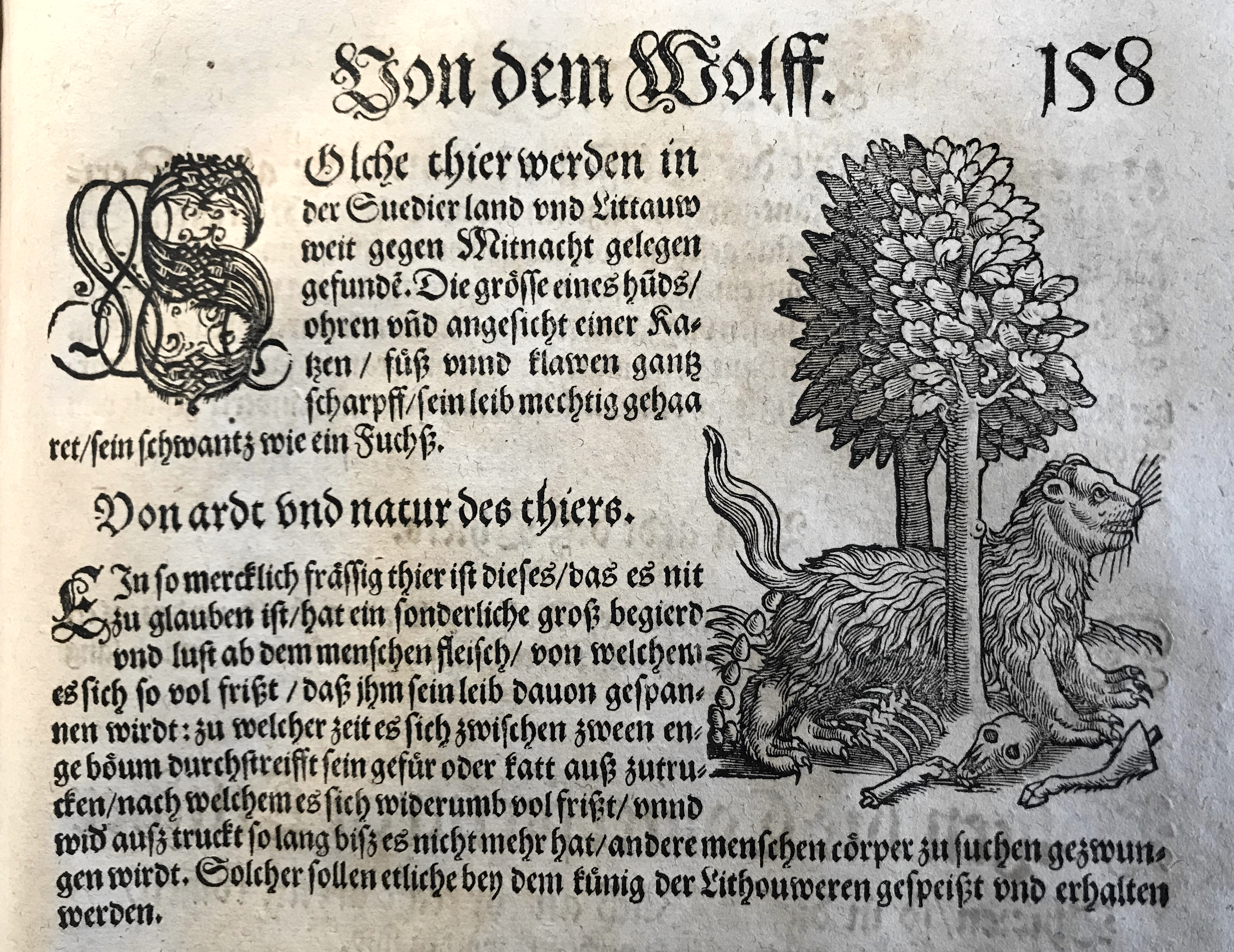 Original description in German text about the alleged habit of the wolverine to eat corpses (in this paragraph: (of) humans) and afterwards to squeeze itself through trees to empty its bowels more rapidly (i.e., after eating too much human flesh which it likes so much).